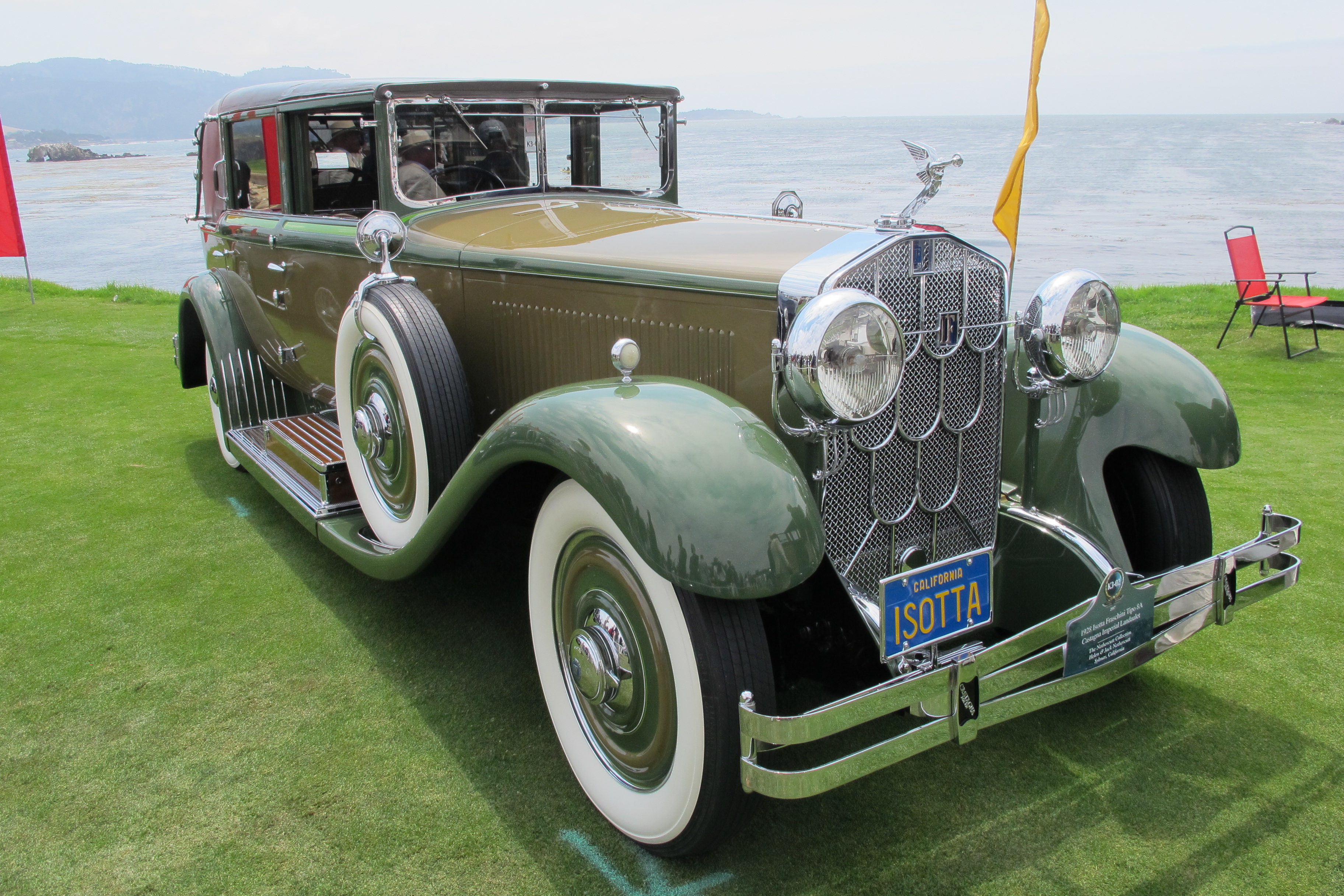 A 1928 Isotta-Fraschini Tipo 8A Castagna Imperial Landaulet on display at the 2017 Pebble Beach Concours d'Elegance